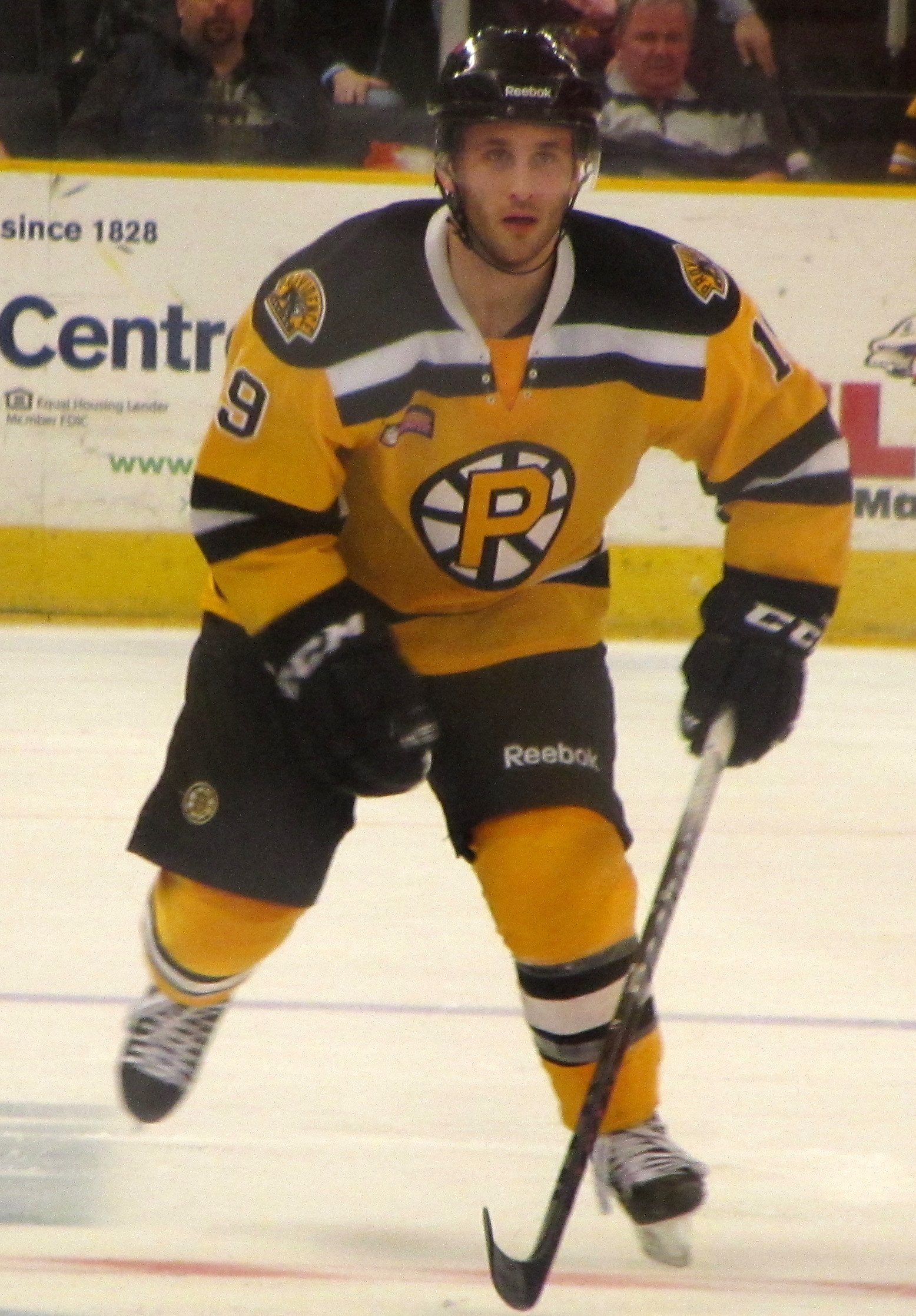 Carter Camper of the Providence Bruins jersey.